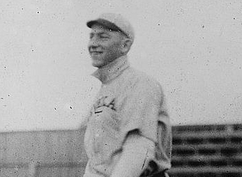 1913 photograph of Willie Mitchell , pitcher for the Cleveland Naps. This image is cropped slightly from the original plate.